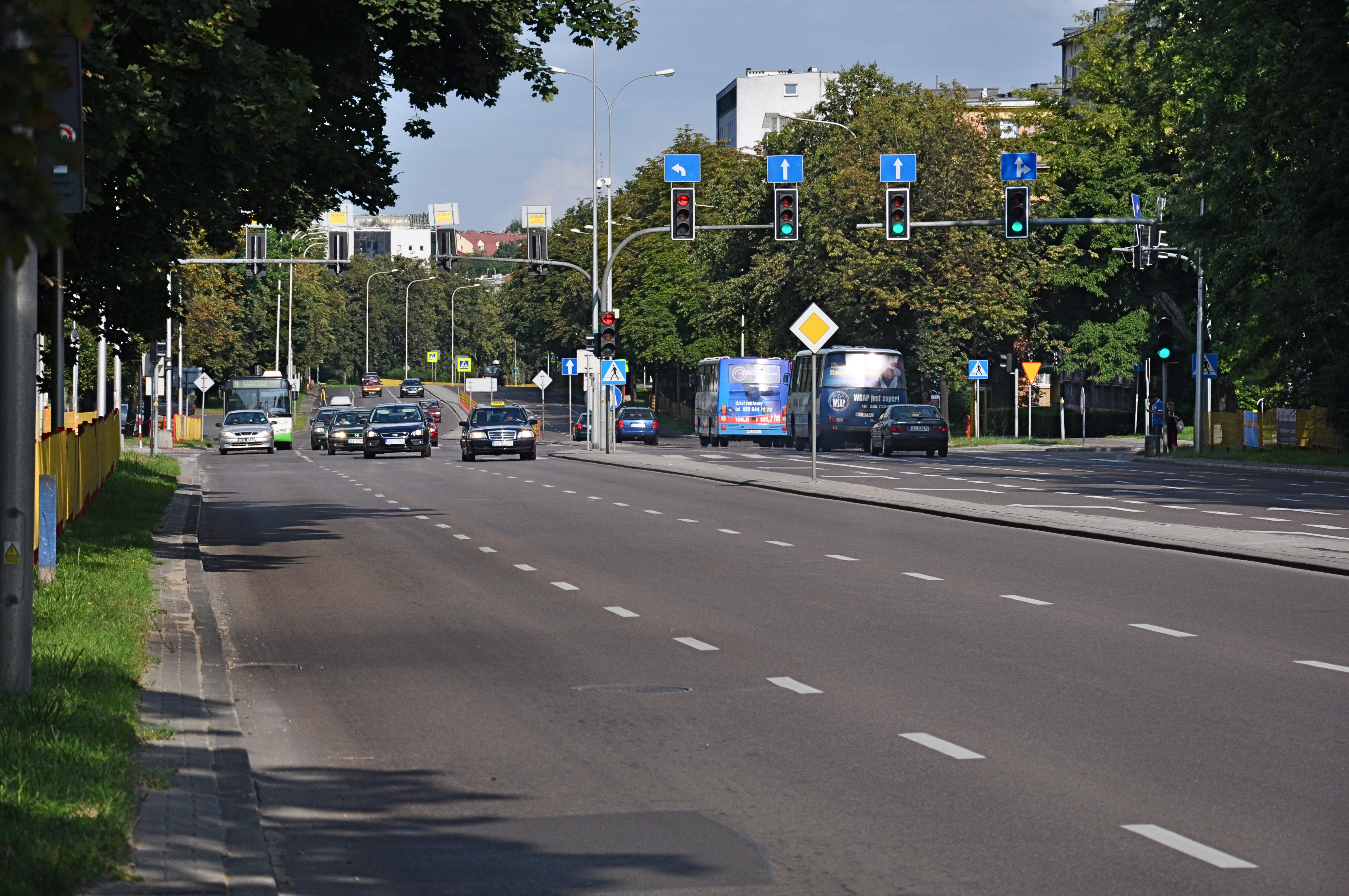 Pilsudski Avenue in Bialystok, Podlaskie Voivodeship.